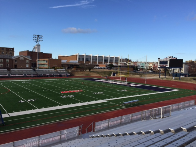 Greene Stadium with Burr Gymnasium in the background